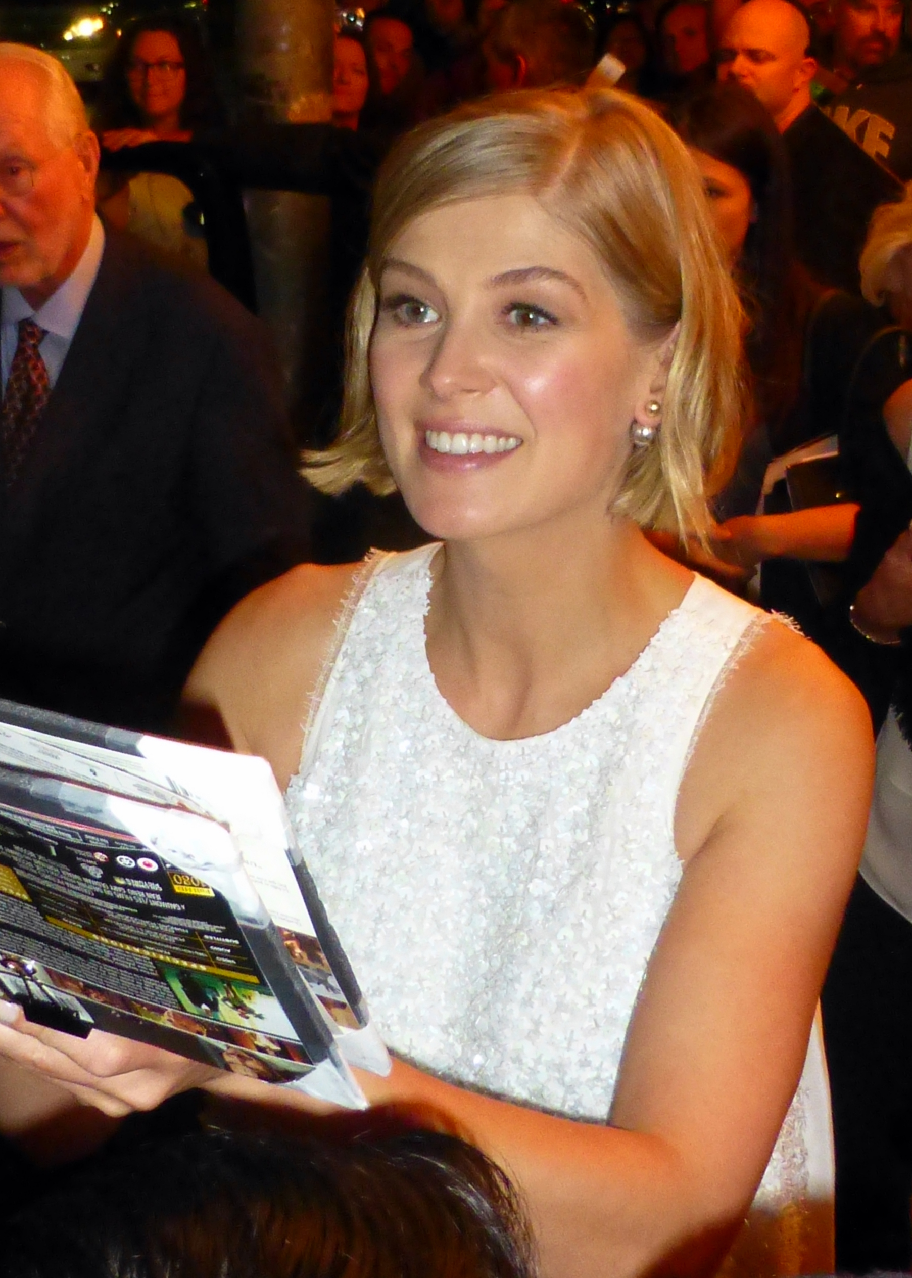 Rosamund Pike at the premiere of Hector and the Search for Happiness, Toronto Film Festival 2014